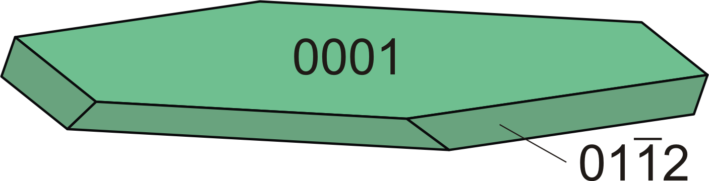 Drawing of a Chalcophyllite crystal; reference: Dana's System of Mineralogy, 7. edition, volume II, page 1009